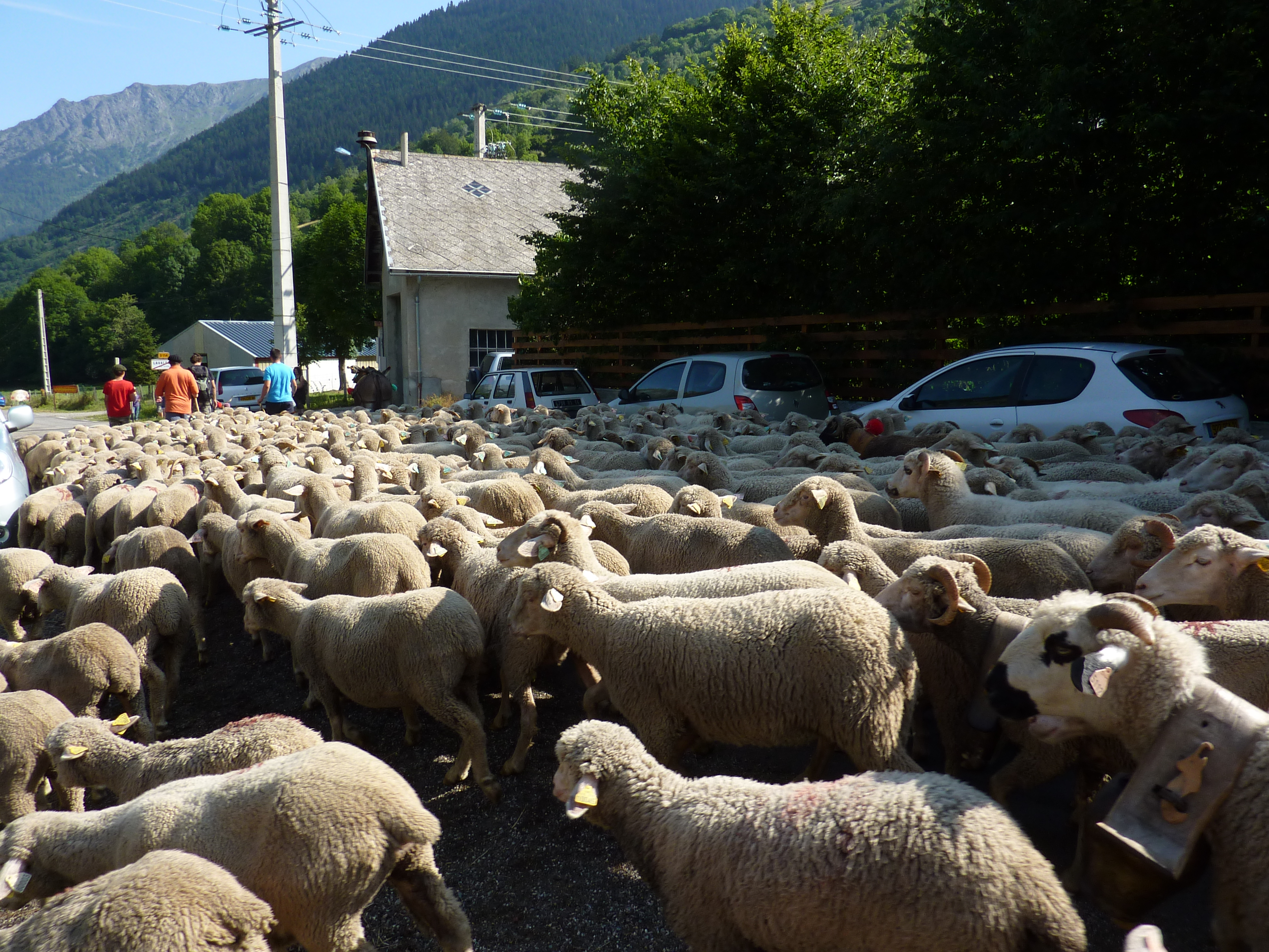 Transhumance from the village of Lavaldens, France